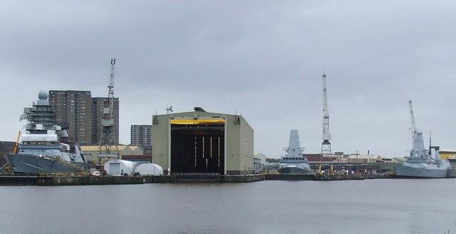 BAE Systems Scotstoun There are three naval ships currently being worked on at the yard.